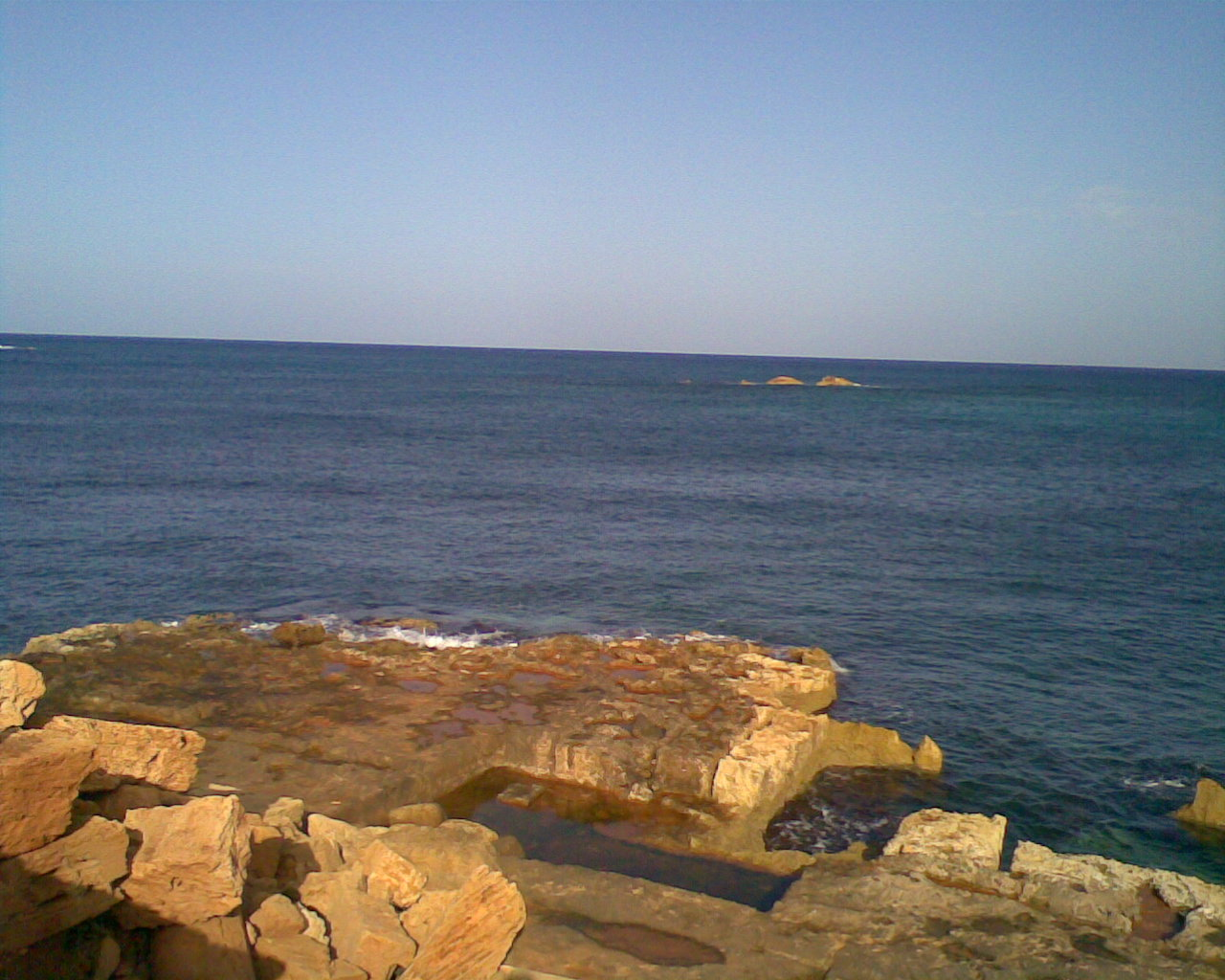 Port of Apollonia (Susah), Libya.